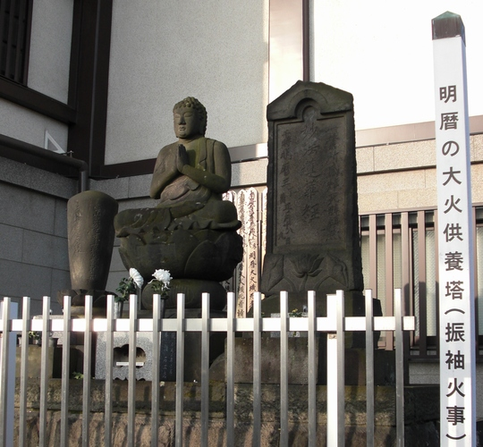 Stupa of the "Great_Fire_of_Meireki" (明暦大火供養塔) in Honmyōji